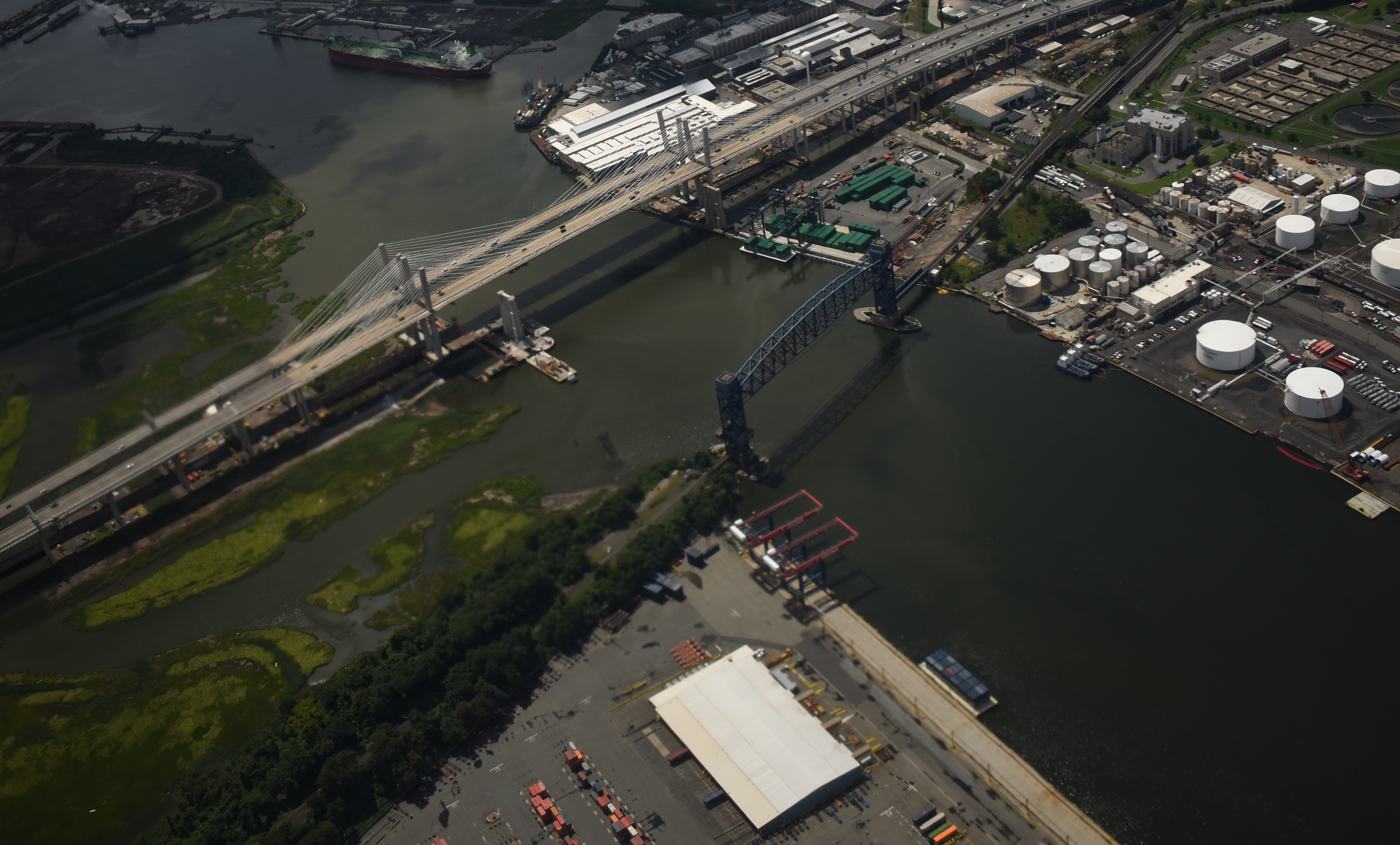 New Goethals Bridge over Arthur Kill between Staten Island, New York City and New Jersey in the USA. Supports for the old bridge are visible to the right of the new dual bridge. Also showen is the Arthur Kill Vertical Lift Bridge carrying a freight railroad track. The two barge-to-rail transfer facilities of New York City's new solid waste disposal system are also visible. One is on the New York Container Terminal on Staten Island, near the bottom, and is used by Covanta Energy; the other, on the New Jersey side between the Goethals Bridge and the Arthur Kill Vertical Lift Bridge, is used by Waste Management. Solid waste containers are on barges near both facilities.